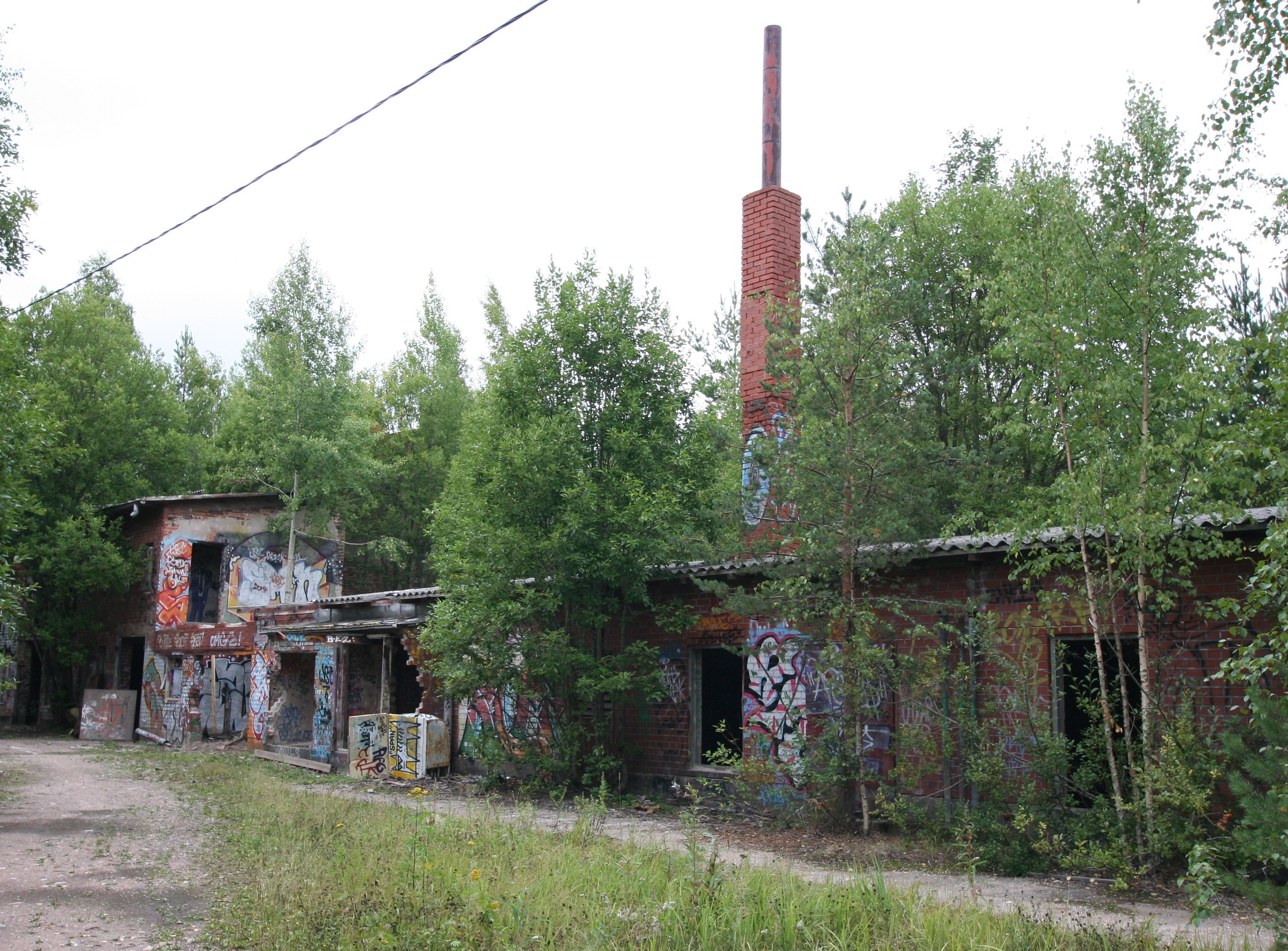 Ruins of Virenoja brick factory (not repaired after fire in 1975)